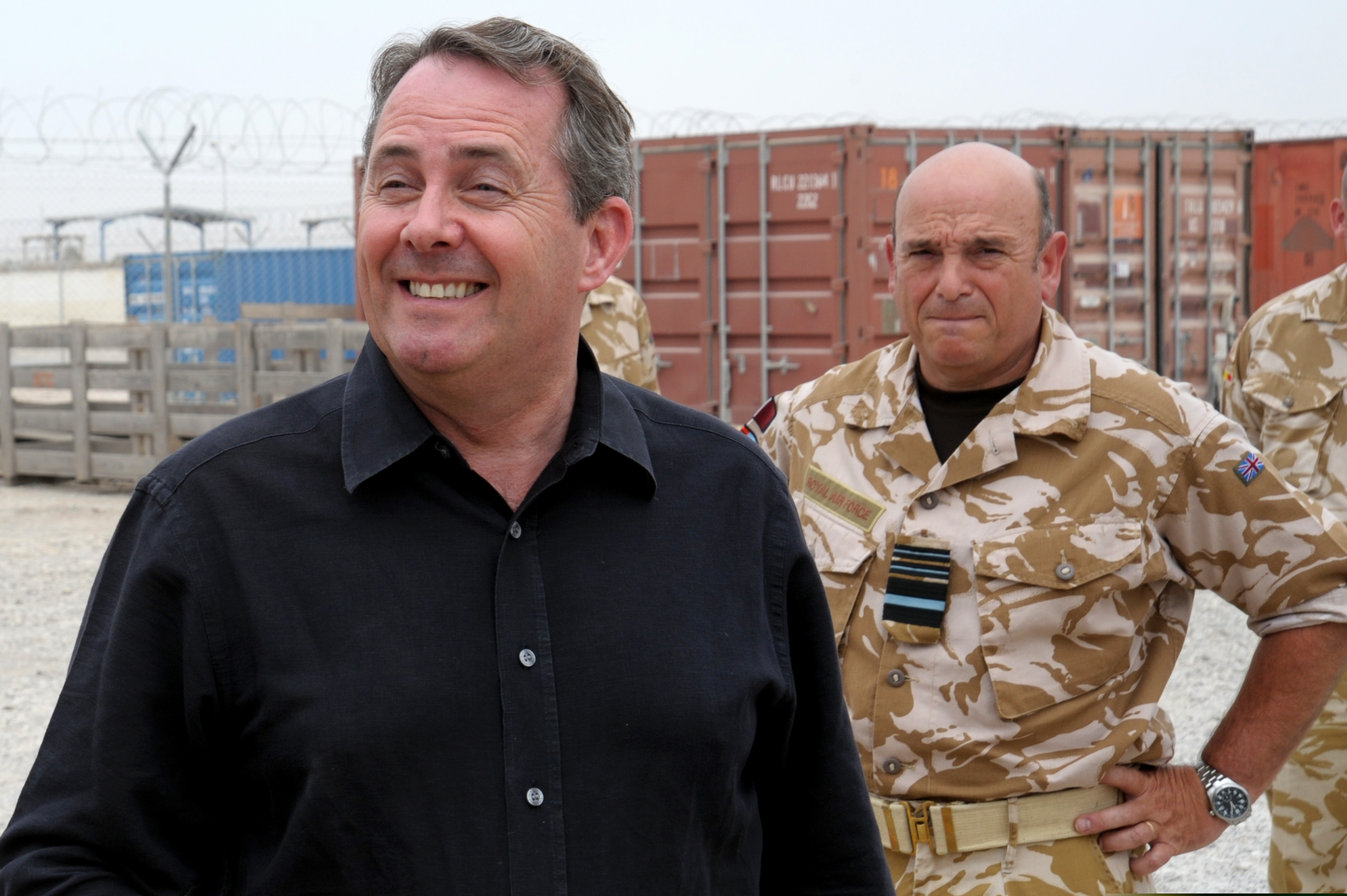 Liam Fox, left, a member of the British Parliament and the Secretary of State for Defence, and Air Marshal Stuart Peach, British commander of Joint Operations Afghanistan, arrive at Kandahar Air Field, Afghanistan, Aug. 10, 2010, to announce that No. 904 Expeditionary Air Wing was to receive two more Panavia Tornado GR-4 aircraft.